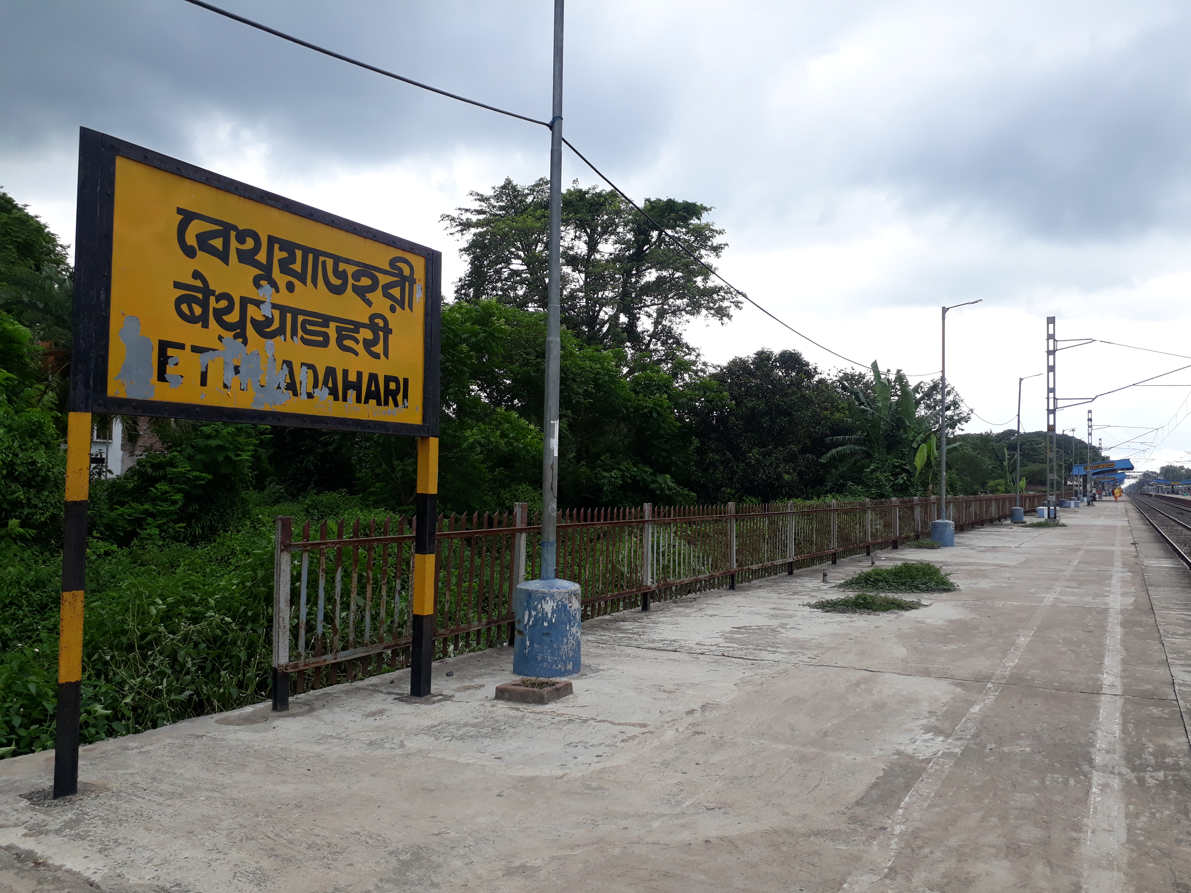 Bethuadahari railway station in Bethuadahari, situated on Ranaghat–Lalgola line in Nadia, West Bengal